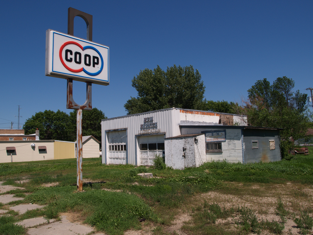 Forest River, North Dakota. From .